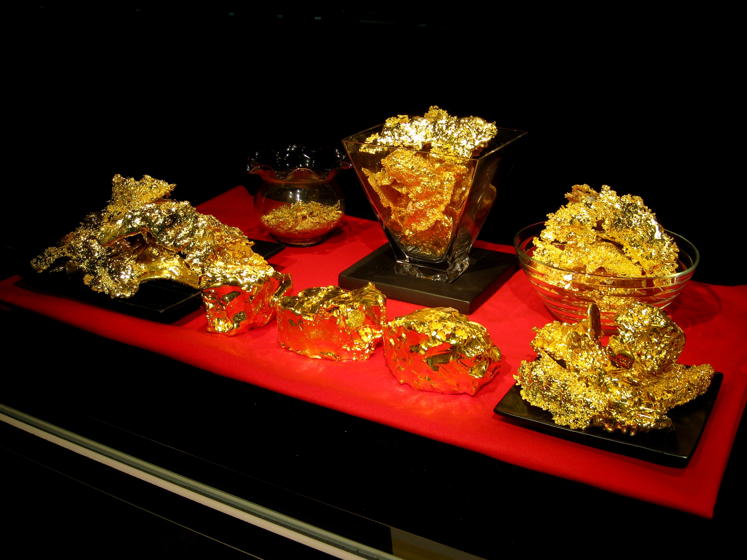 Restored Gold Ingot of Ohashi Collection Kan Museum, this photo took in December 11, 2008